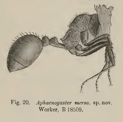 Aphaenogaster mersa worker profile view. Specimen number "B 18509"